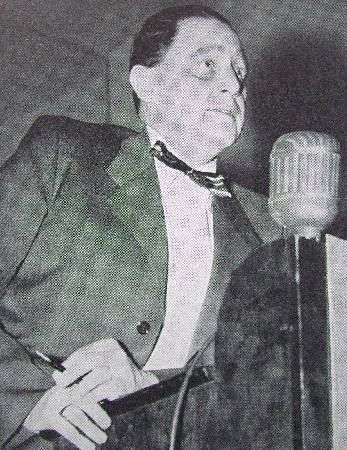 Picture of Jarl Hjalmarson, Sewdish politician